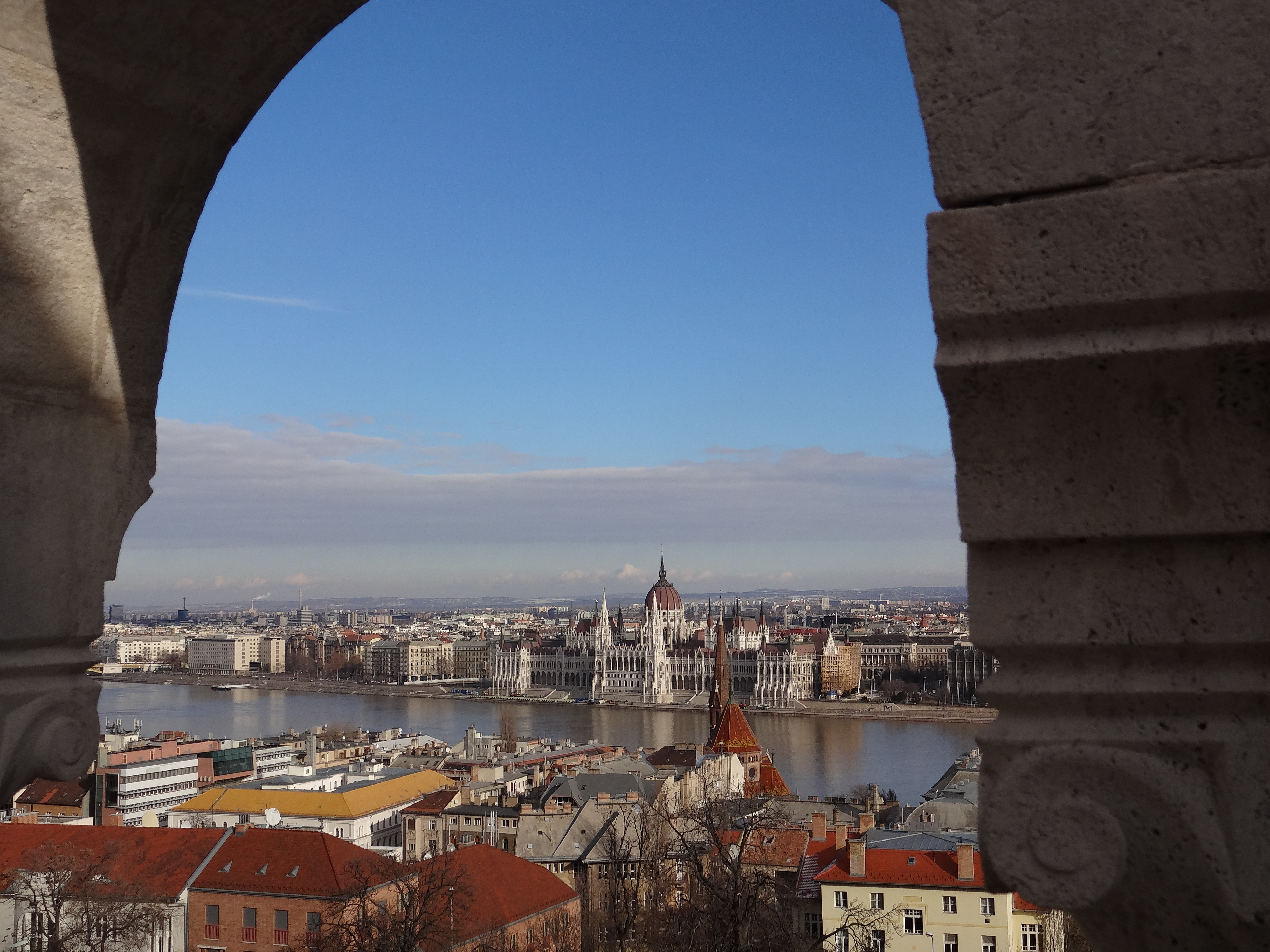 View from Fisherman's Bastion